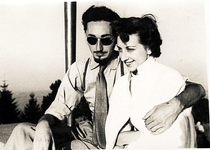 Borislav Pekic with his wife, Ljiljana in Belgrade, 1957.